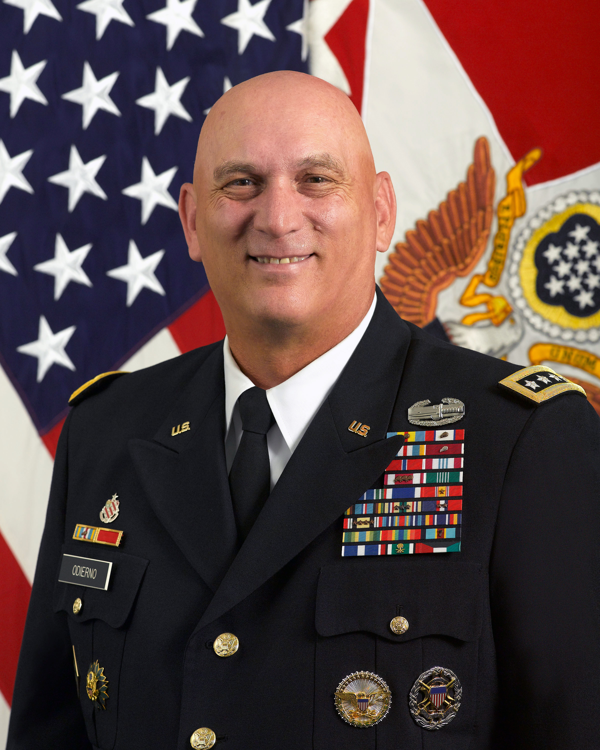 Official photo of GEN Raymond T. Odierno, the 38th Chief of Staff of the U.S. Army.